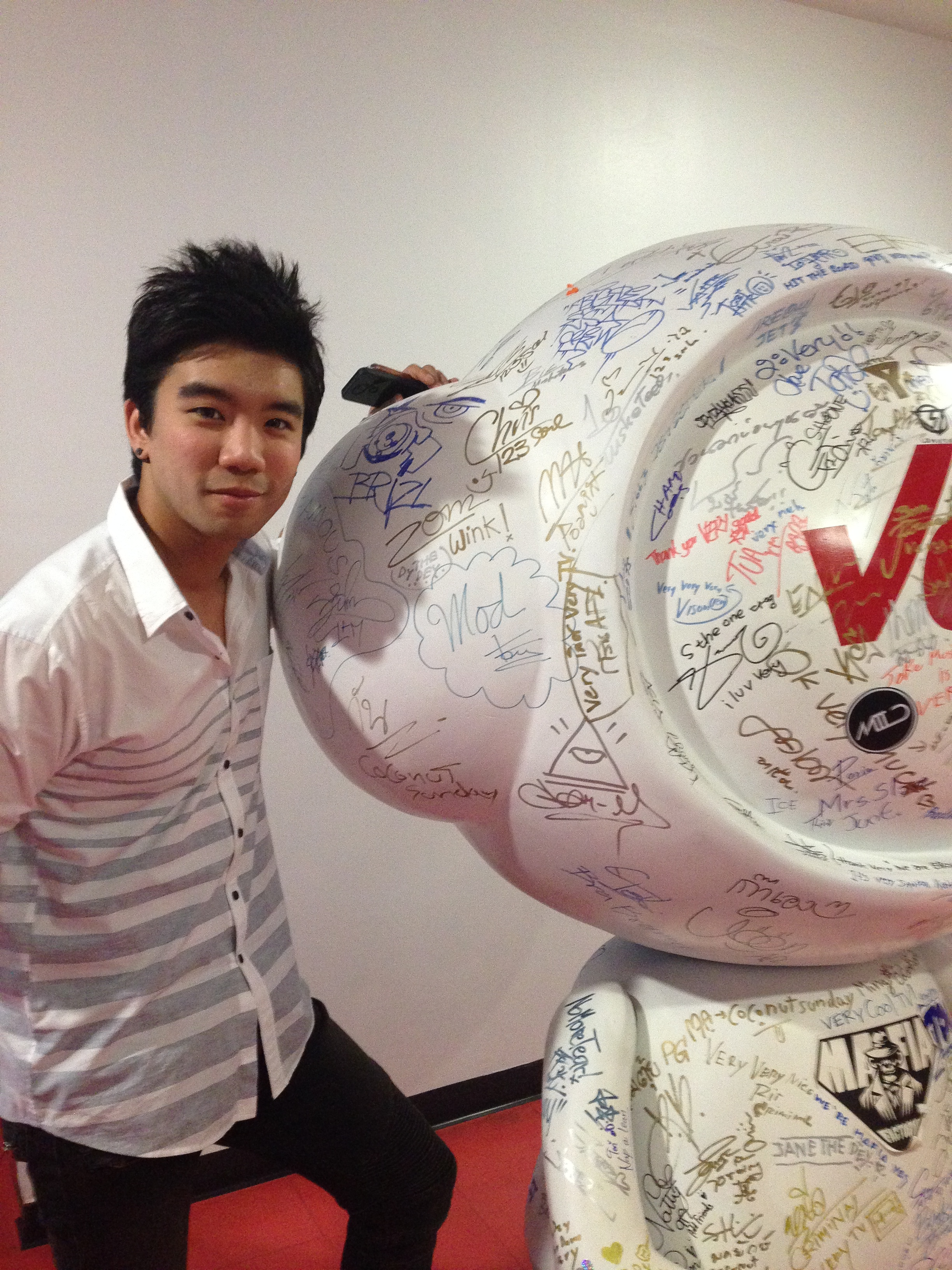 Music AF4 at VERY TV.